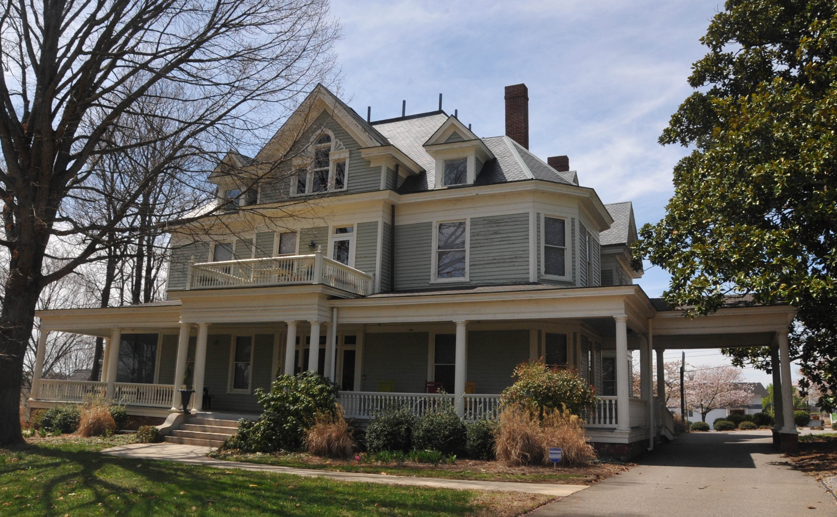 COLONEL BLAIR WAS A QUAKER AND AN EDUCATOR WHO BECAME SUPERINTENDENT OF THE STATE NORMAL SCHOOL WHICH IS NOW WINSTON-SALEM STATE UNIVERSITY. HOUSE IS ONE OF THE FINEST TURN OF THE CENTURY HOUSES ON CHERRY STREET IN DOWNTOWN WINSTON-SALEM